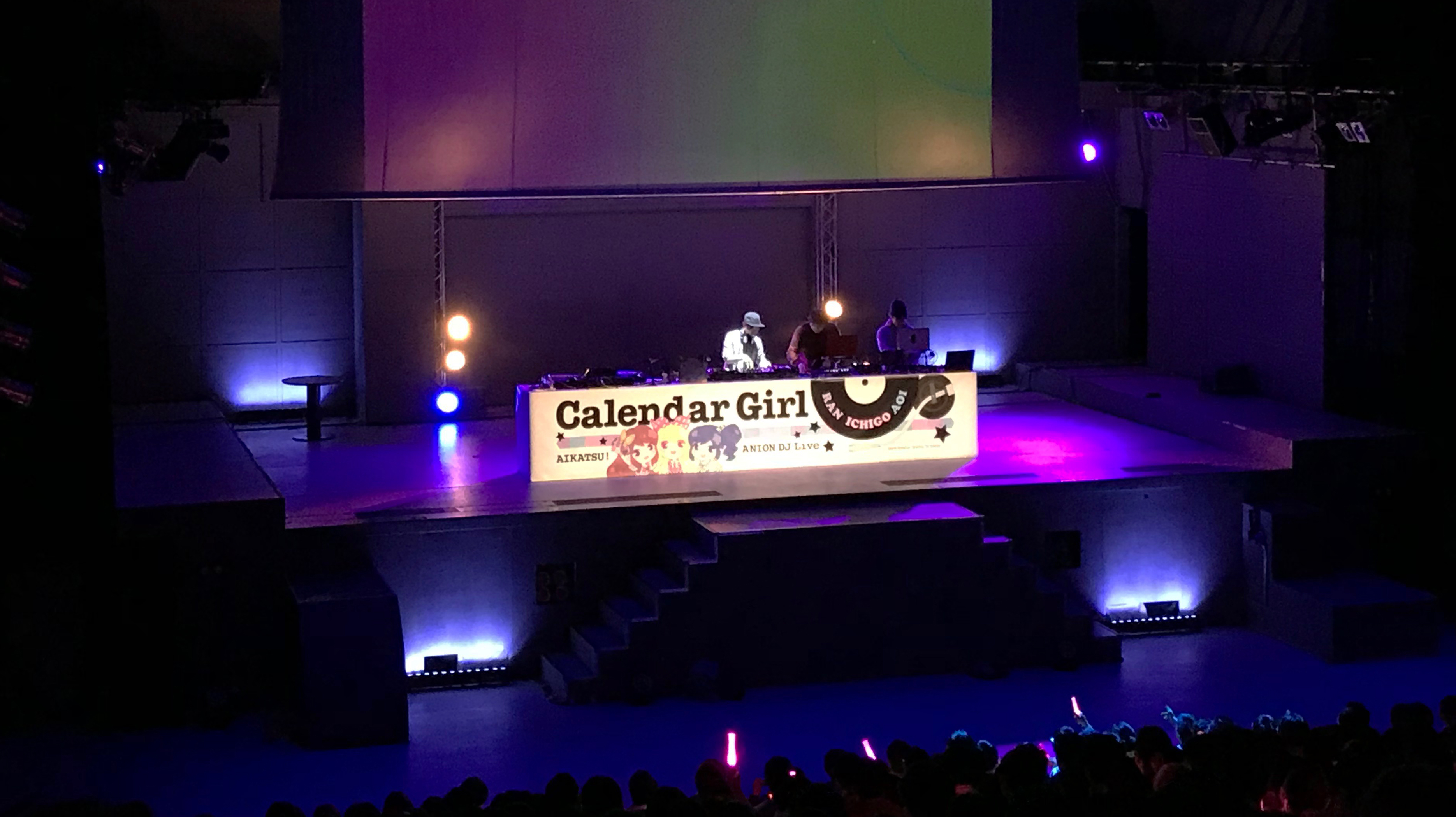 Hidekazu Tanaka (affiliated with MONACA), a Japanese composer, performed DJ at Aikatsu! ANION DJ Live Picture Record "Calendar Girl" Launch Event on March 8, 2019. Participants were permitted to take photos in the event. The man who wore the white clothes is Tanaka.